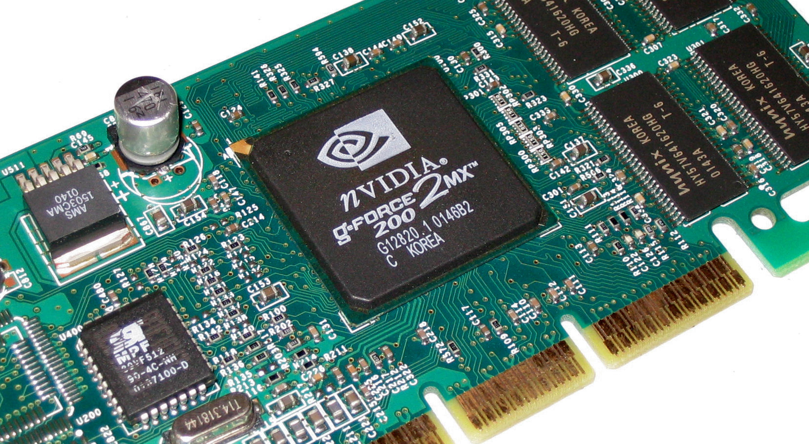 Photograph of NVIDIA GeForce 2 MX200 AGP video card. Photographed by uploader.